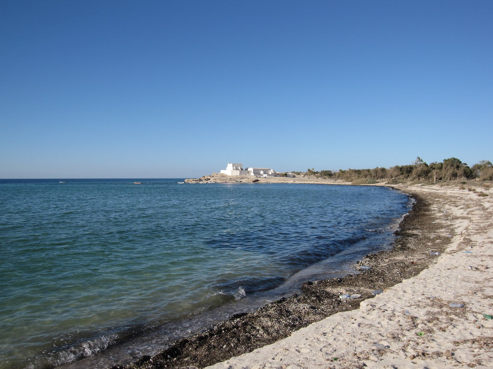 Jerba coastal mosque and Anchorhead (Star Wars)